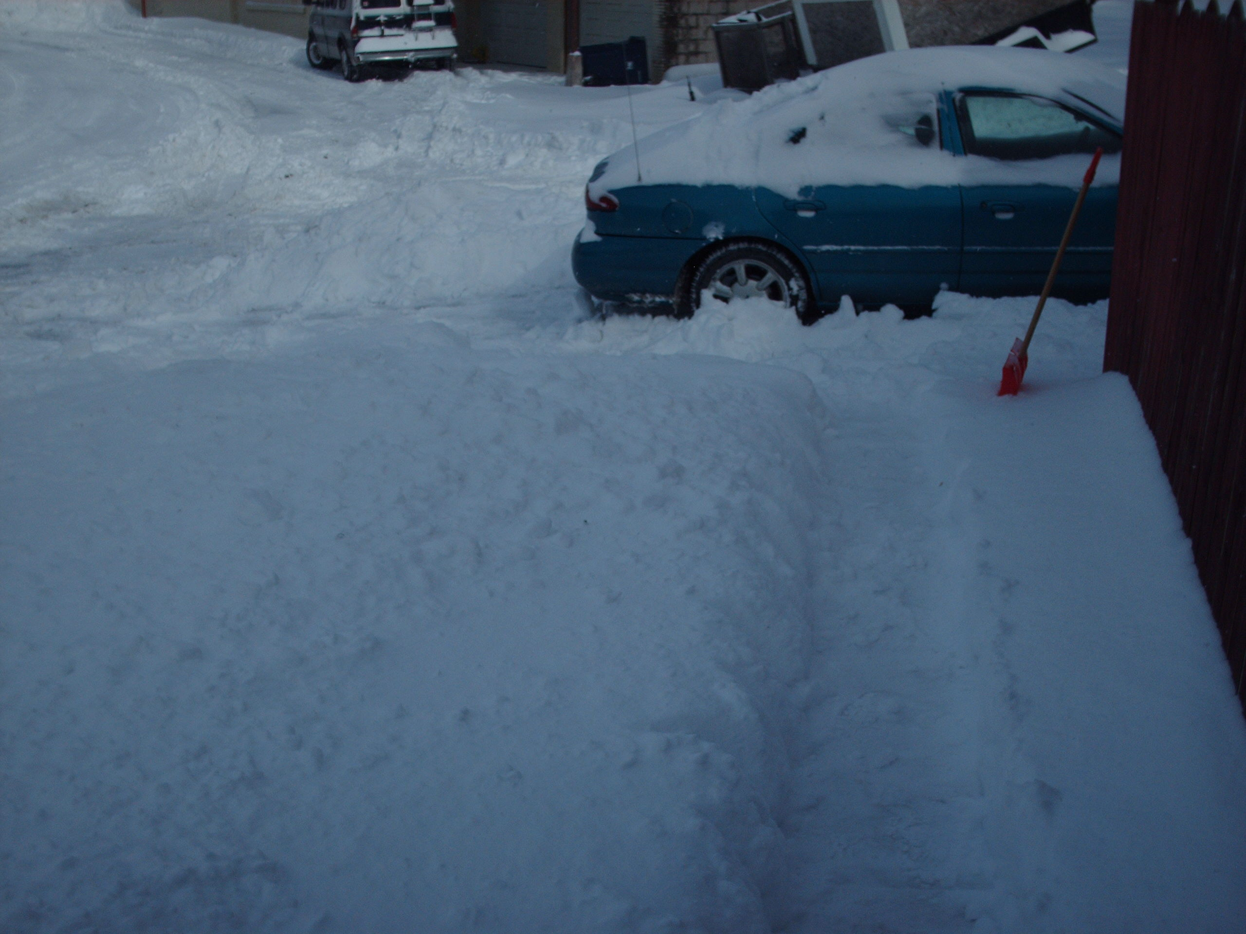 17 inches of snow on the ground in Mansfield, Ohio after the St. Valentines Day blizzard of 2007.